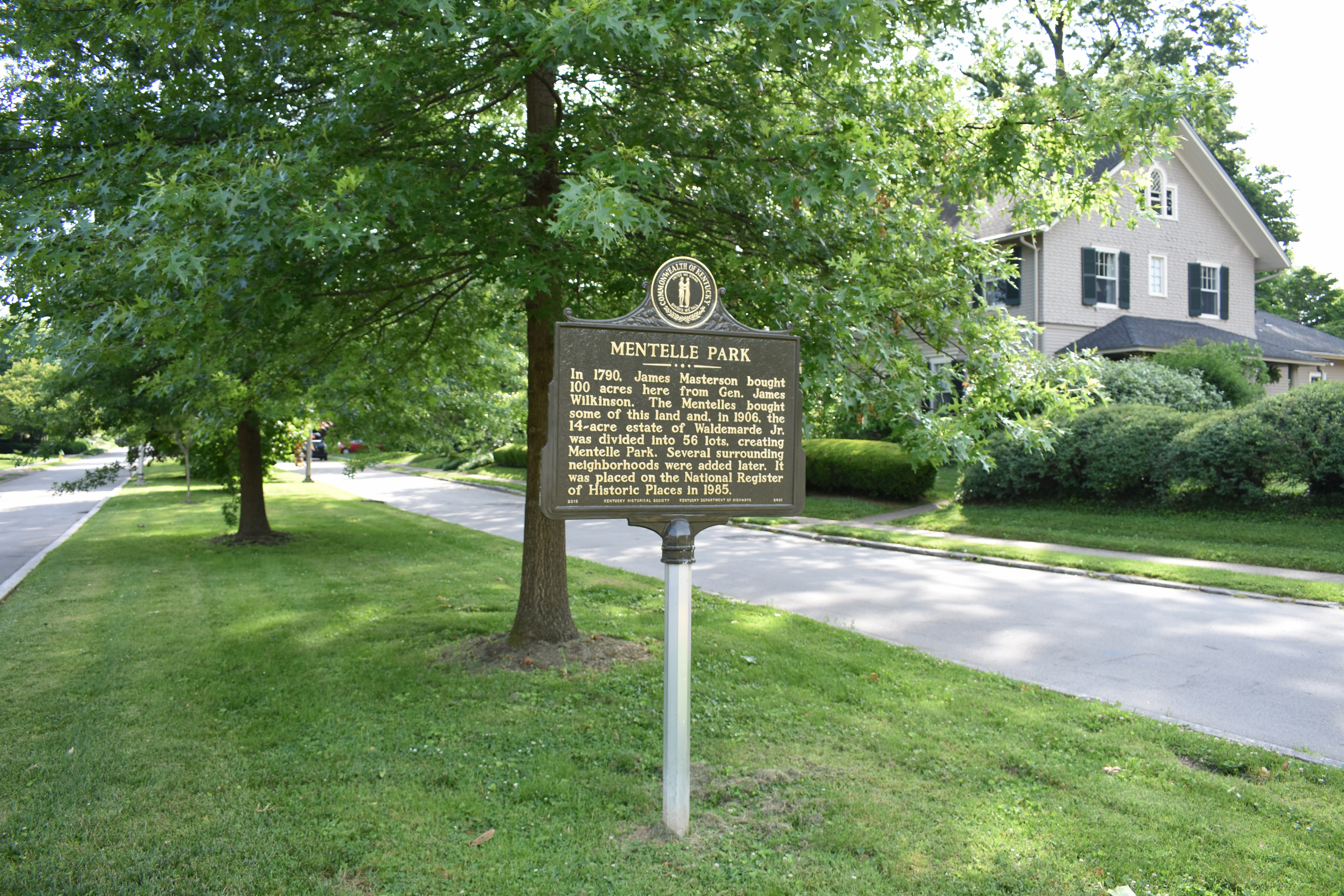 Mentelle Park in Lexington, Kentucky, is listed on the National Register of Historic Places.